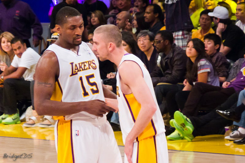 Lakers vs Heat, December 25, 2010, at Staples Center, Los Angeles, California.